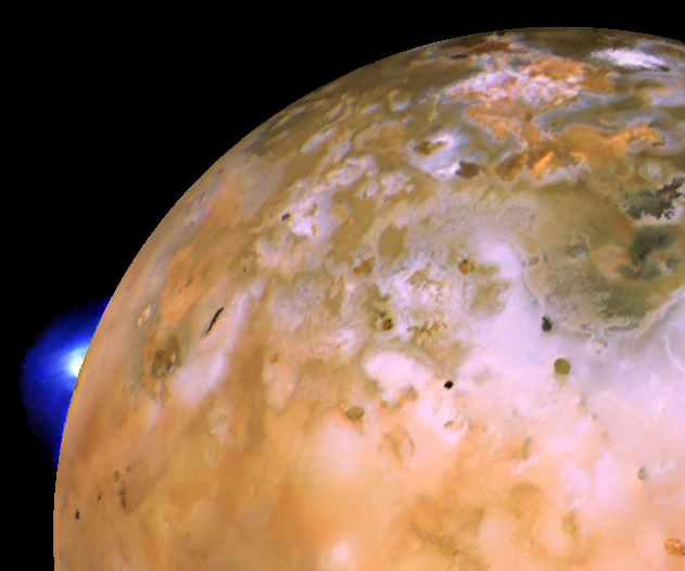 NASA's Voyager 1 image of Io showing active plume of Loki on limb. Heart-shaped feature southeast of Loki consists of fallout deposits from active plume Pele. The images that make up this mosaic were taken from an average distance of approximately 490,000 kilometers (340,000 miles).